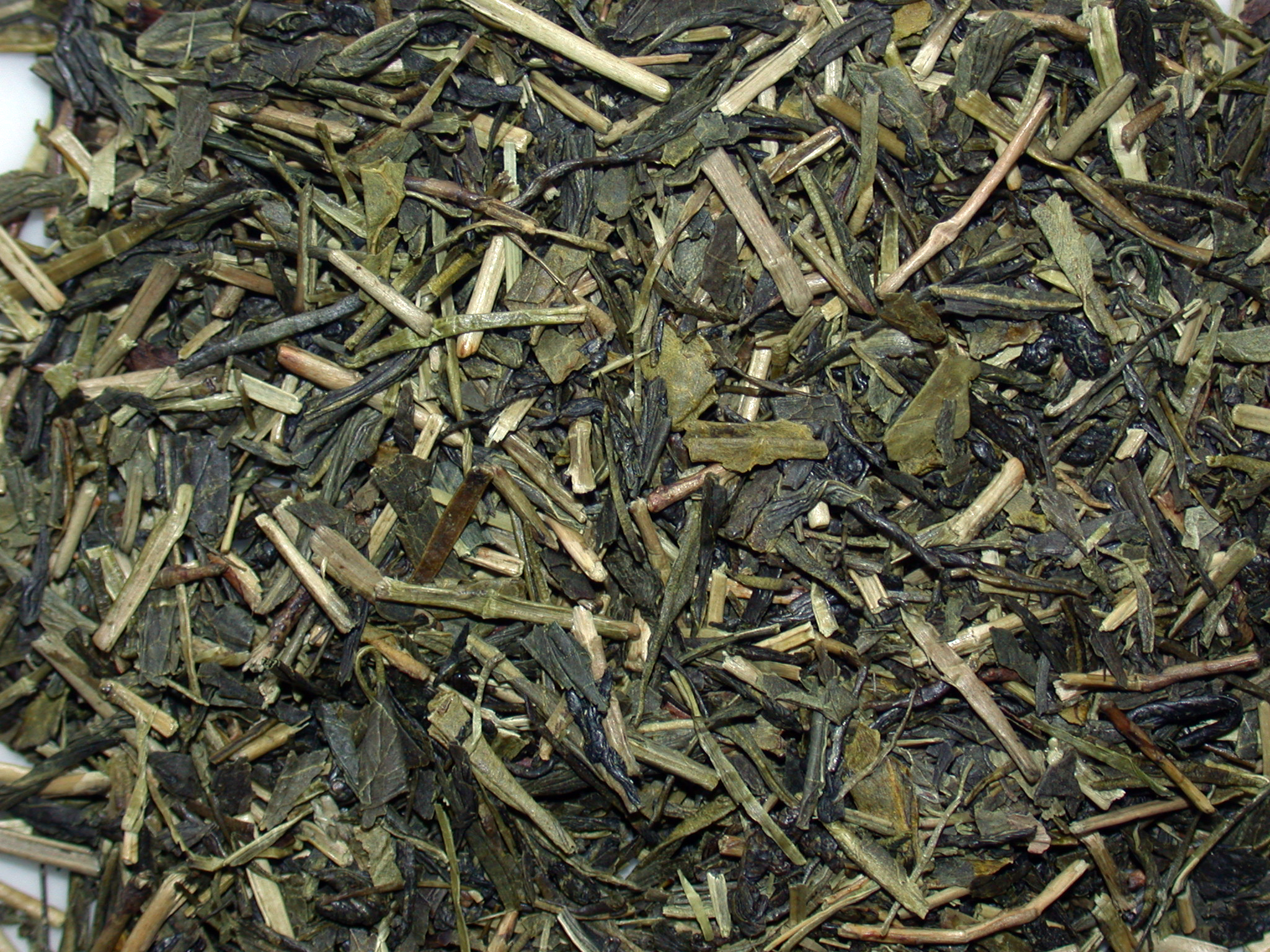 Kukicha (green tea from japan).